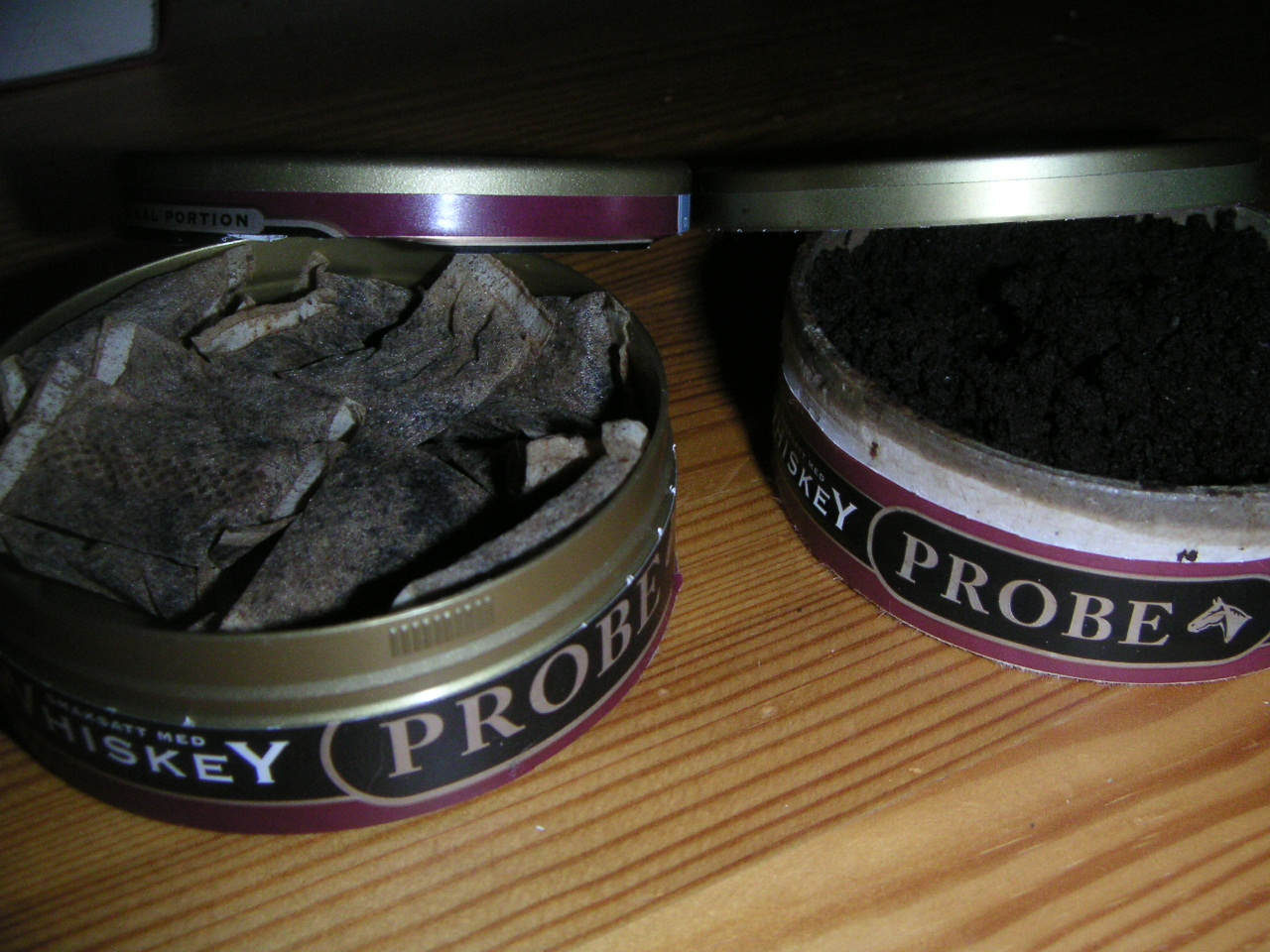 Snus by the brand Probe